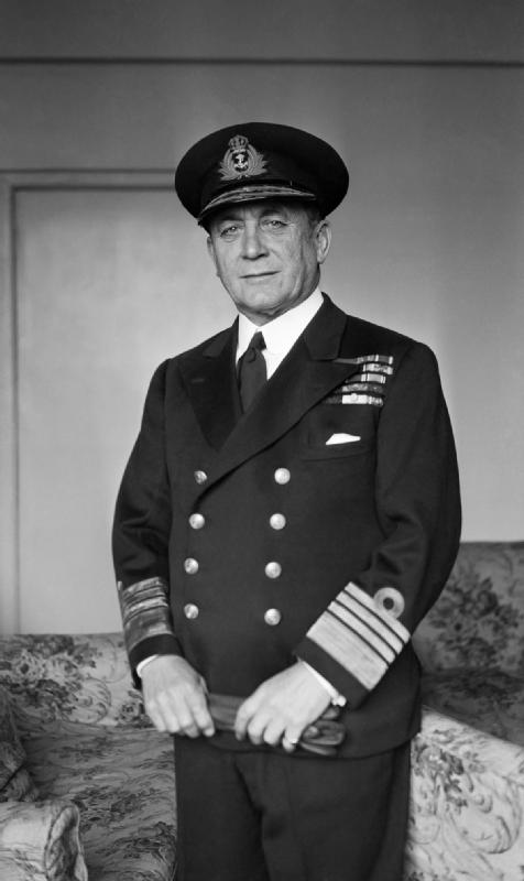 Royal Navy Admiral Sir Max Horton, Commander in Chief Western Approaches from November 1942 to May 1945.